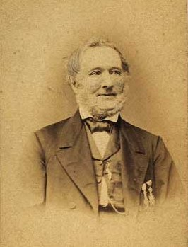 Hans Heinrich Baumgarten (1806-1875), Danish-German mechanic, co-founder of Baumgarten & Burmeister, the later Burmeister & Wain